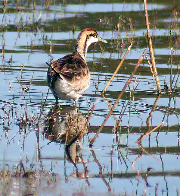 Pheasant-tailed Jacana Hydrophasianus chirurgus at Bharatpur, Rajasthan, India.